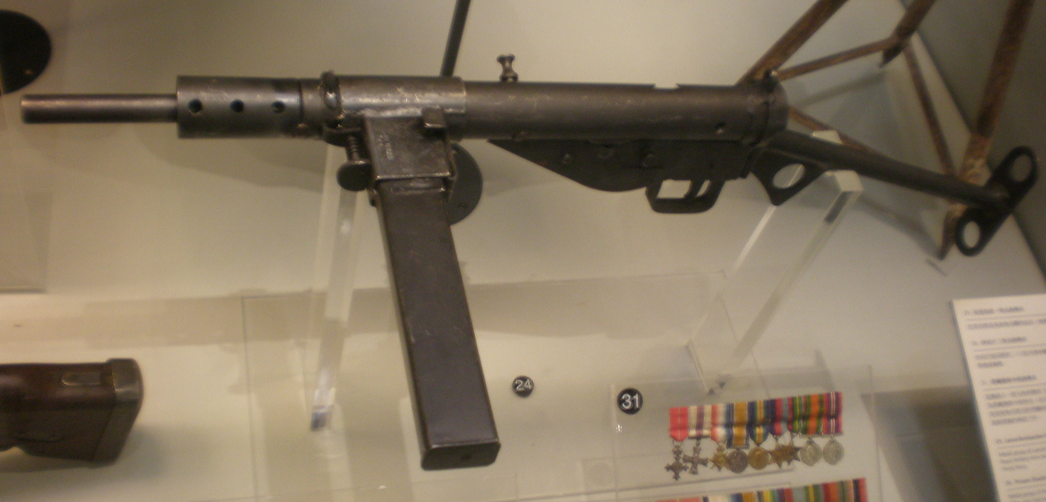 A Sten Mk II on display at the Hong Kong Museum of Coastal Defence.